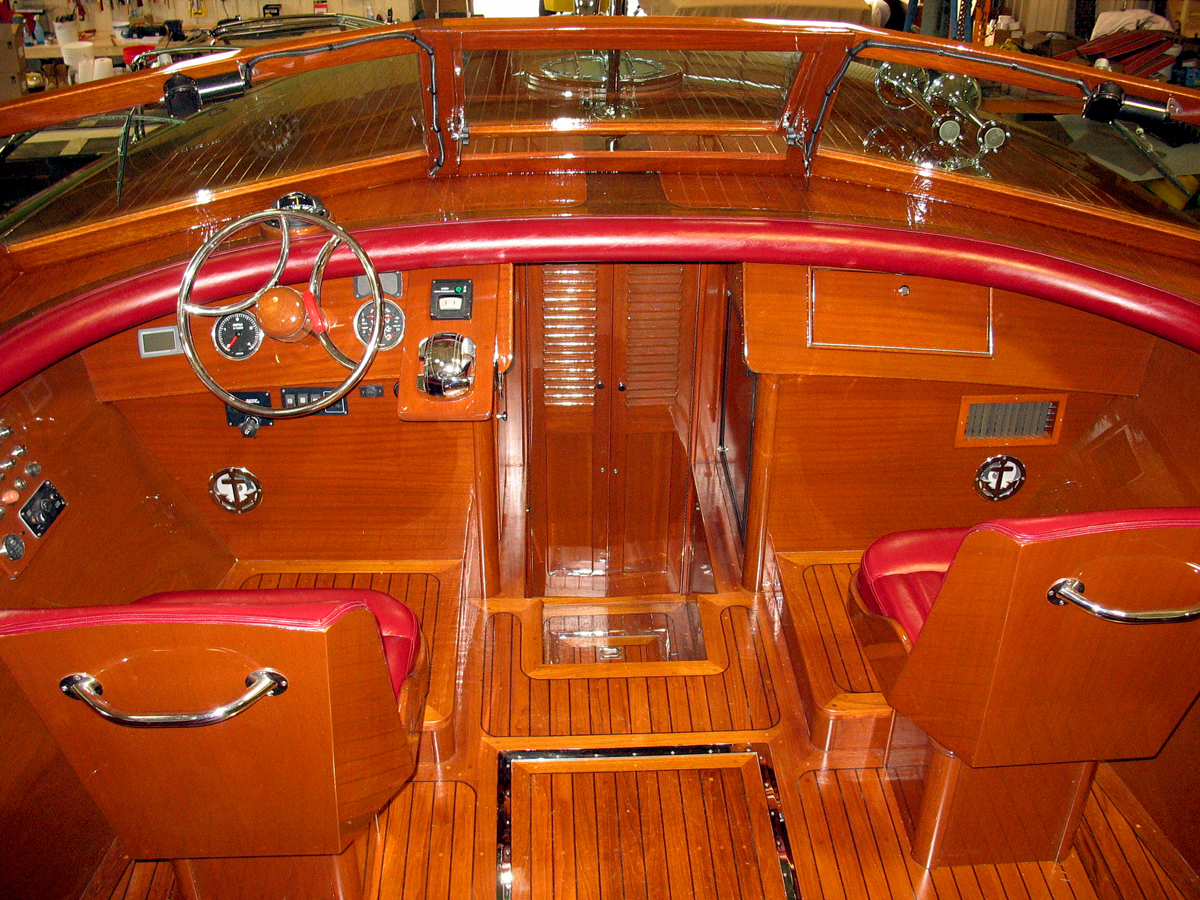 Stephens Bros. Boat Builders Sea Stag II, 38-foot (12 m), 1946 Restored by Mayea Boat & Aeroplane Works